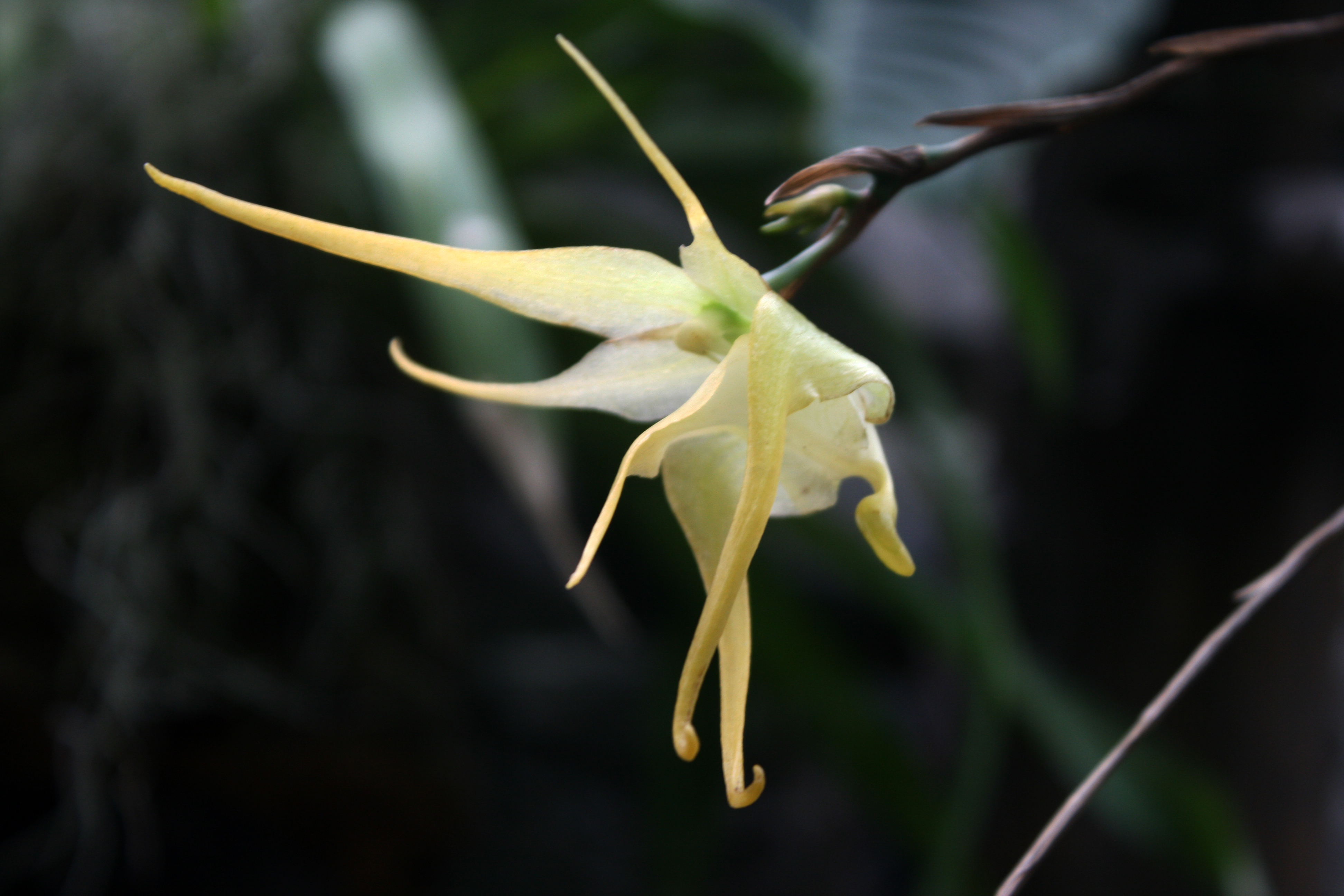 Aeranthes arachnitis